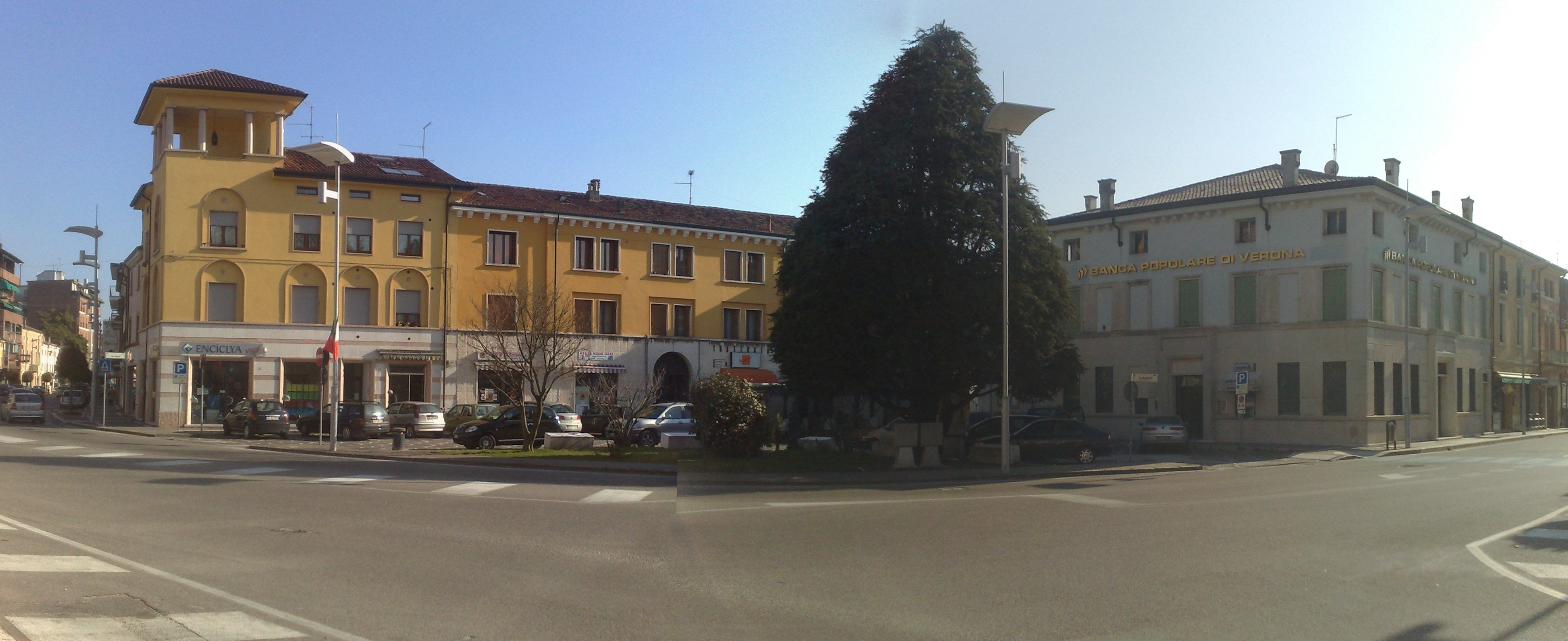 Piazza Matteotti in Cerea